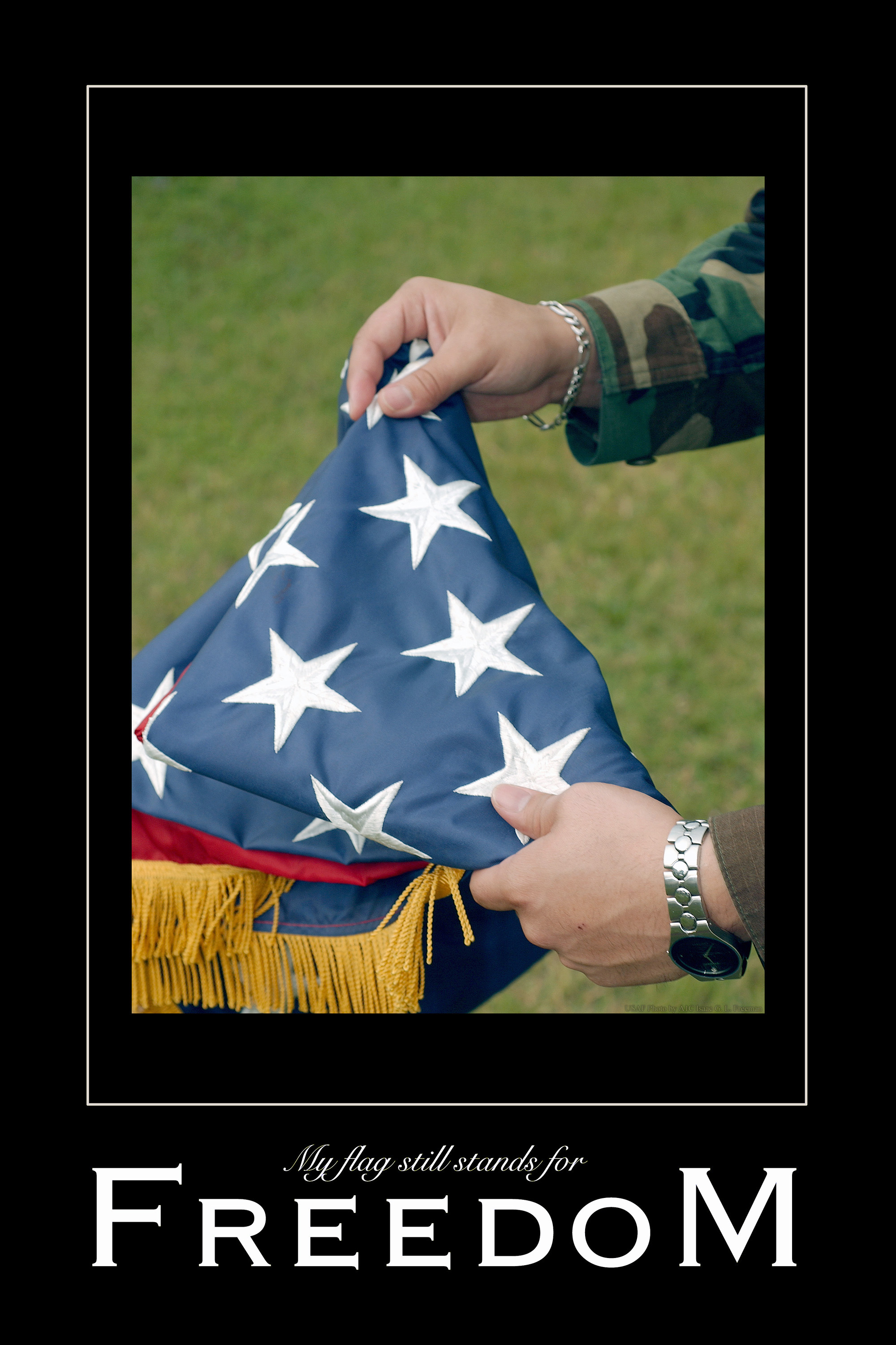 "Freedom," a 20x30-inch inspirational color poster photograph of the American flag being folded in the traditional fashion, created by the 31st Communications Squadron (CS), Visual Information, Aviano Air Base (AB), Italy. Subtitle:"My flag still stands for freedom."